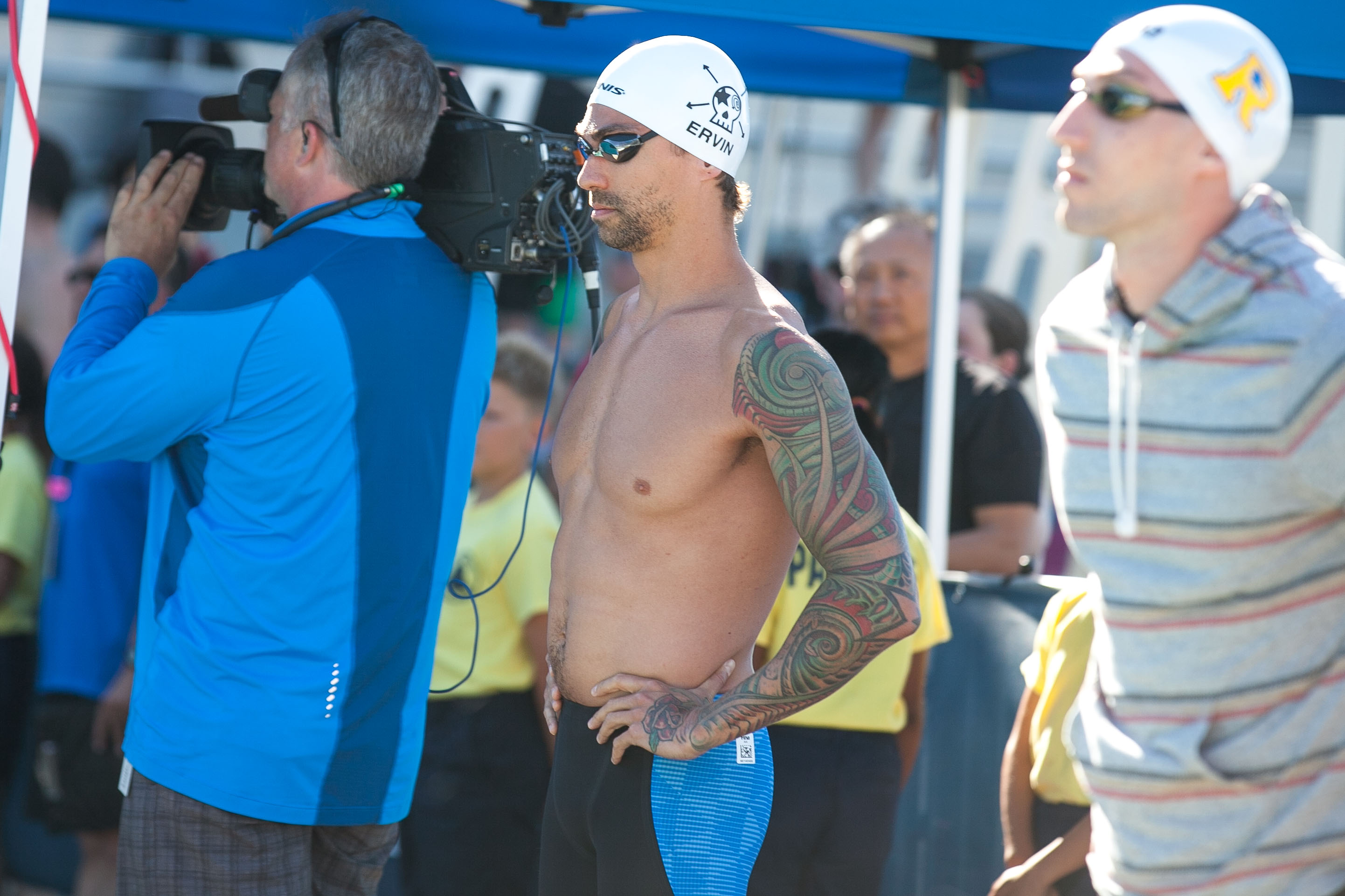 At the 2016 Santa Clara Arena Grand Prix. Noncommercial use only. Must credit: JD Lasica/Cruiseable